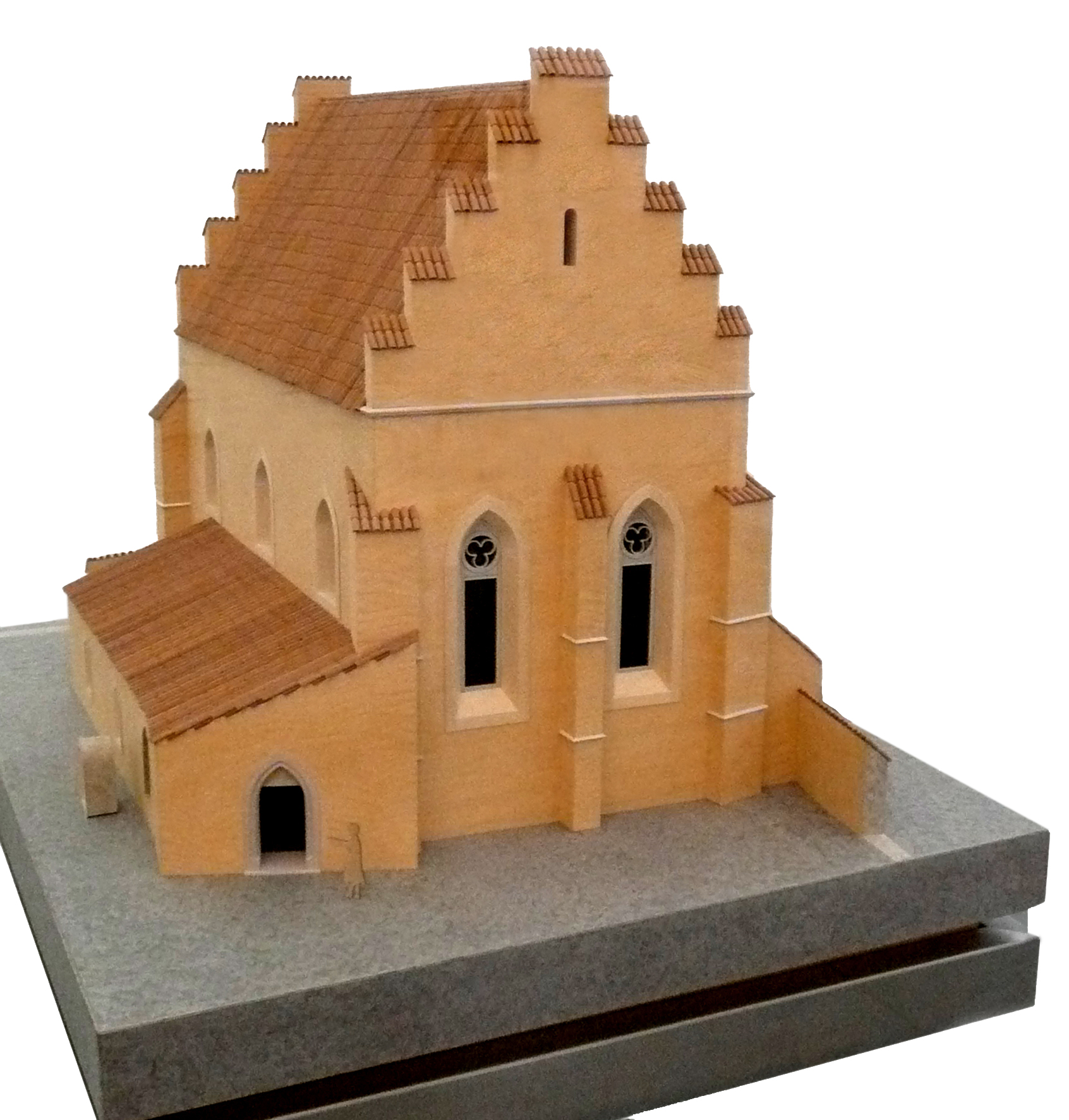 Model of the medieval synagogue at Judenplatz. around 1400. Model made out of various kinds of wood, scale 1:25. Design: Heidrun Helgerth, Franz Hnizdo. Realisation Atelier Franz Hnizdo.